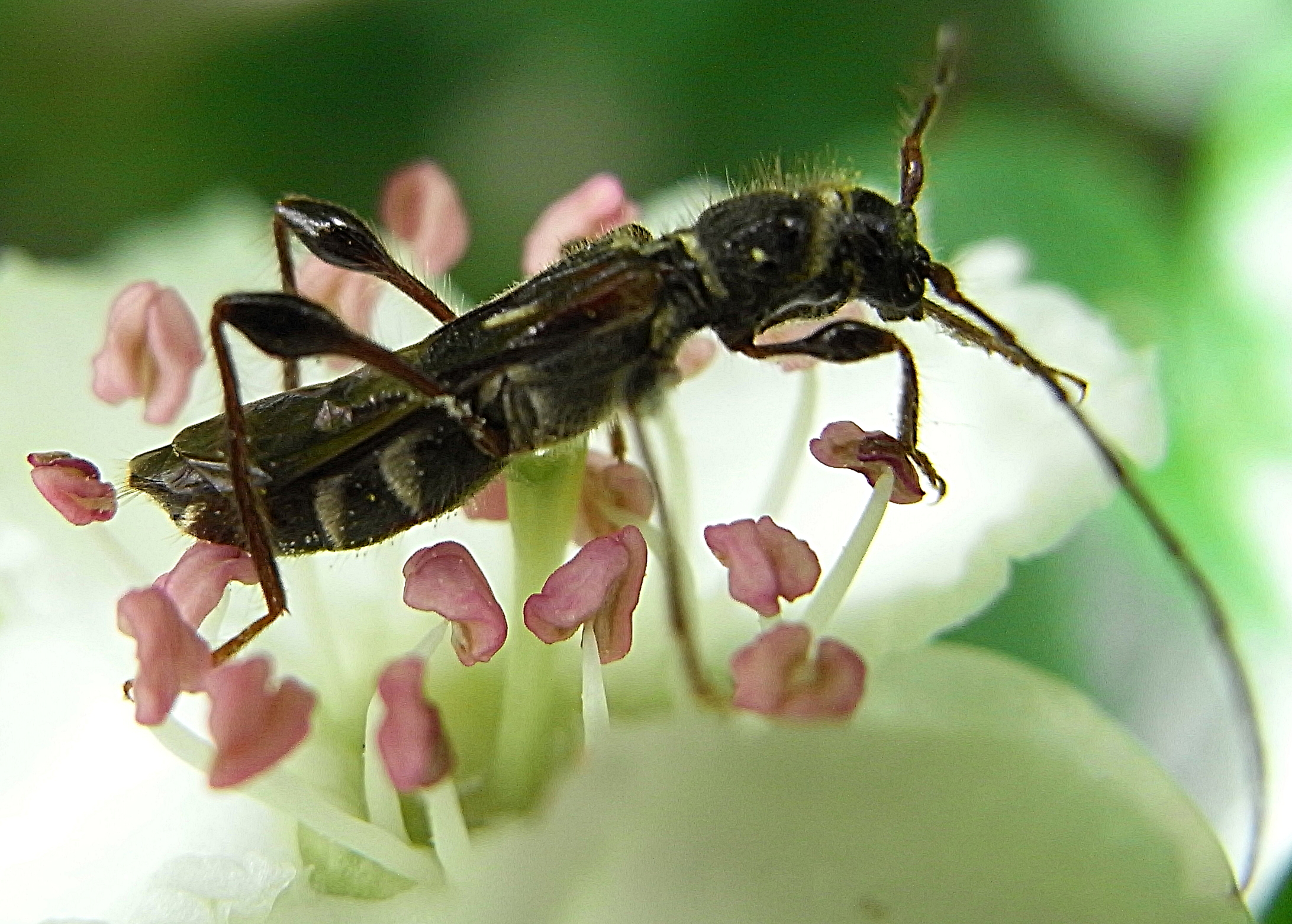 Molorchus minor on Crataegus`